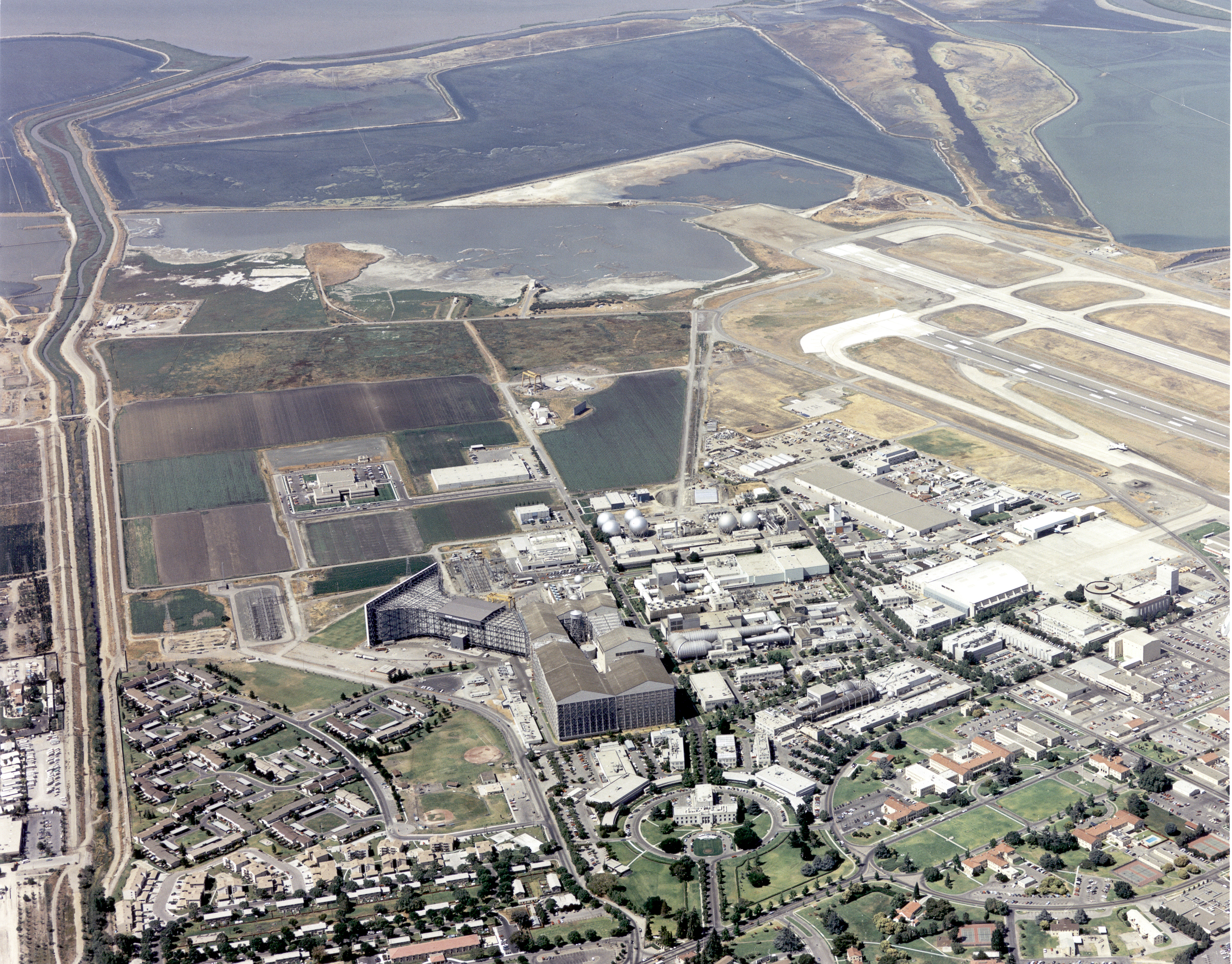 Aerial view of the NASA Ames Research Center, Mountain View, California. The large flaired rectangular structure in the center of the photo is the 80 x 120 Foot Full Scale Wind Tunnel. Adjacent to it is the 40 x 80 Foot Full Scale Wind Tunnel which has been designated a National Historic Landmark.